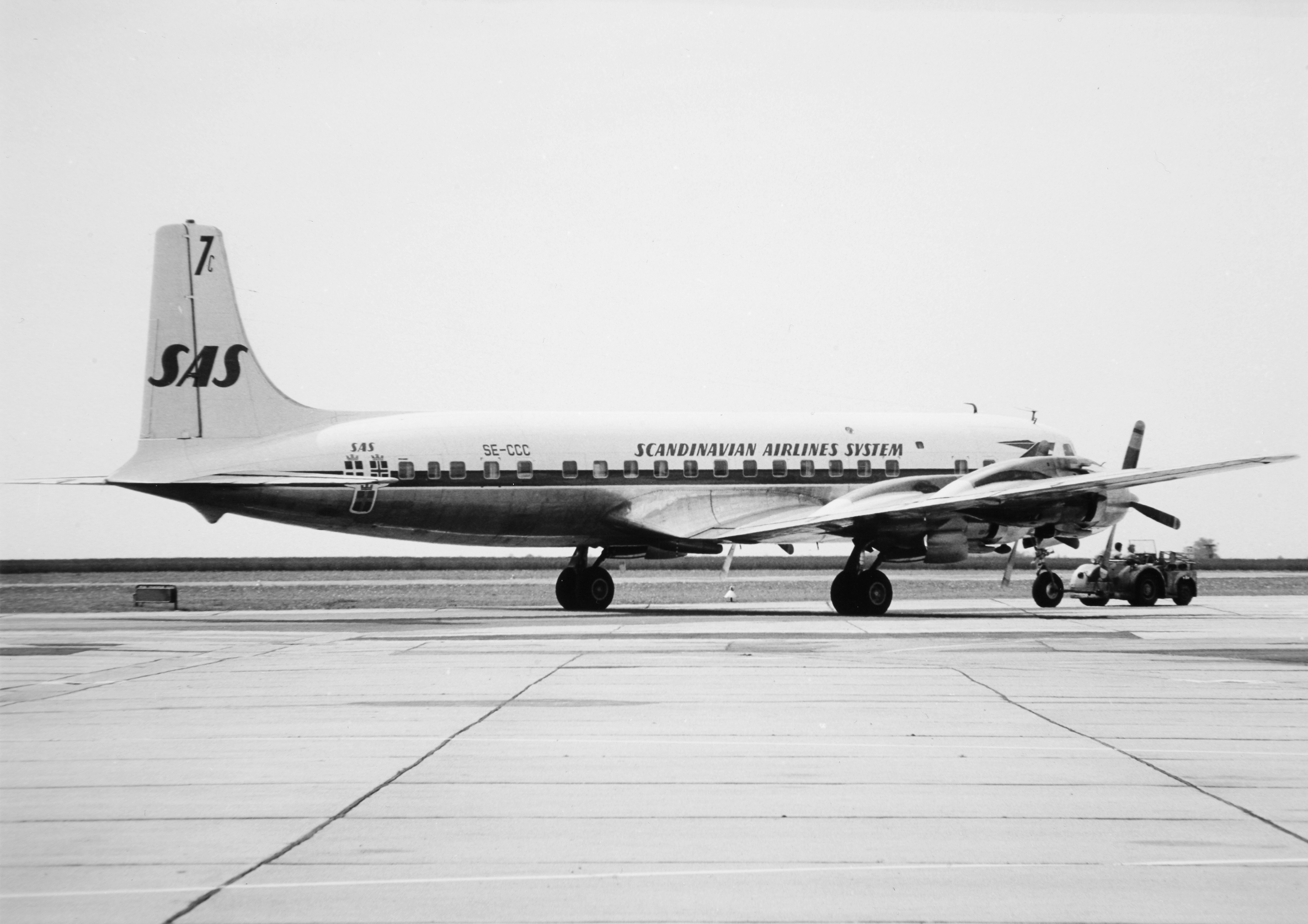 SAS DC-7C, Stig Viking SE-CCC on the ground, at the airport 1960s